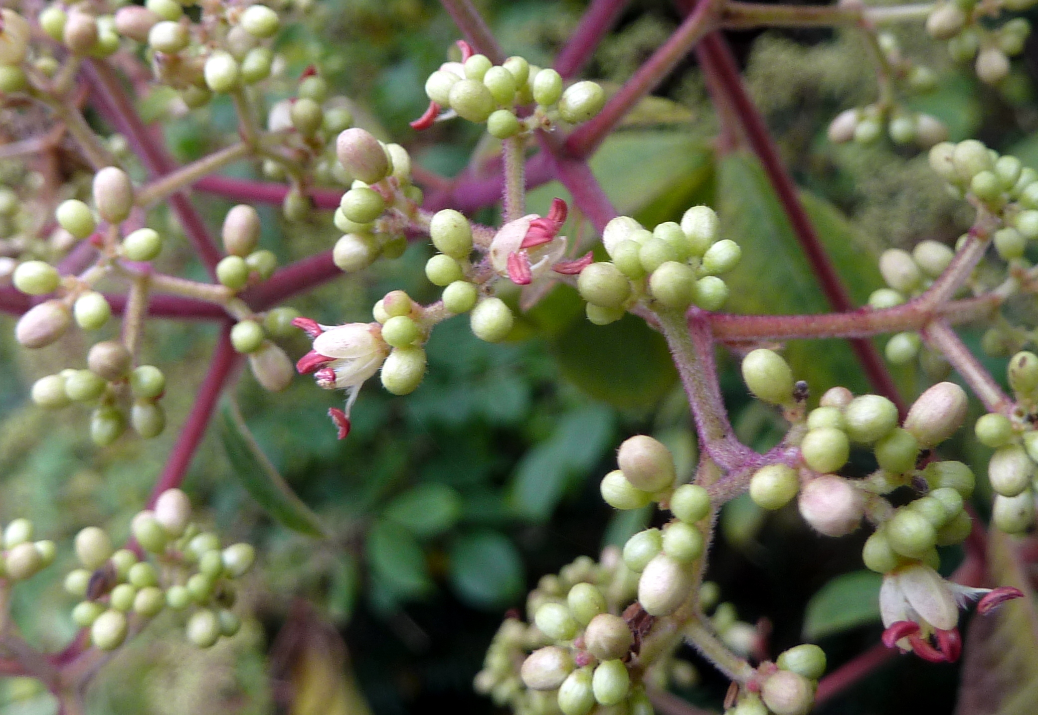 Tetradium glabrifolium at UBC Botanical Garden